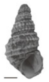 Black-ang white photo of an apertural view of the shell of Margarya monodi Dautzenberg & H. Fischer, 1905 (synonym: Margarya tchangsii) (paratype, IOZ-FG89703), Lake Dianchi. Scale bar is 1 cm.